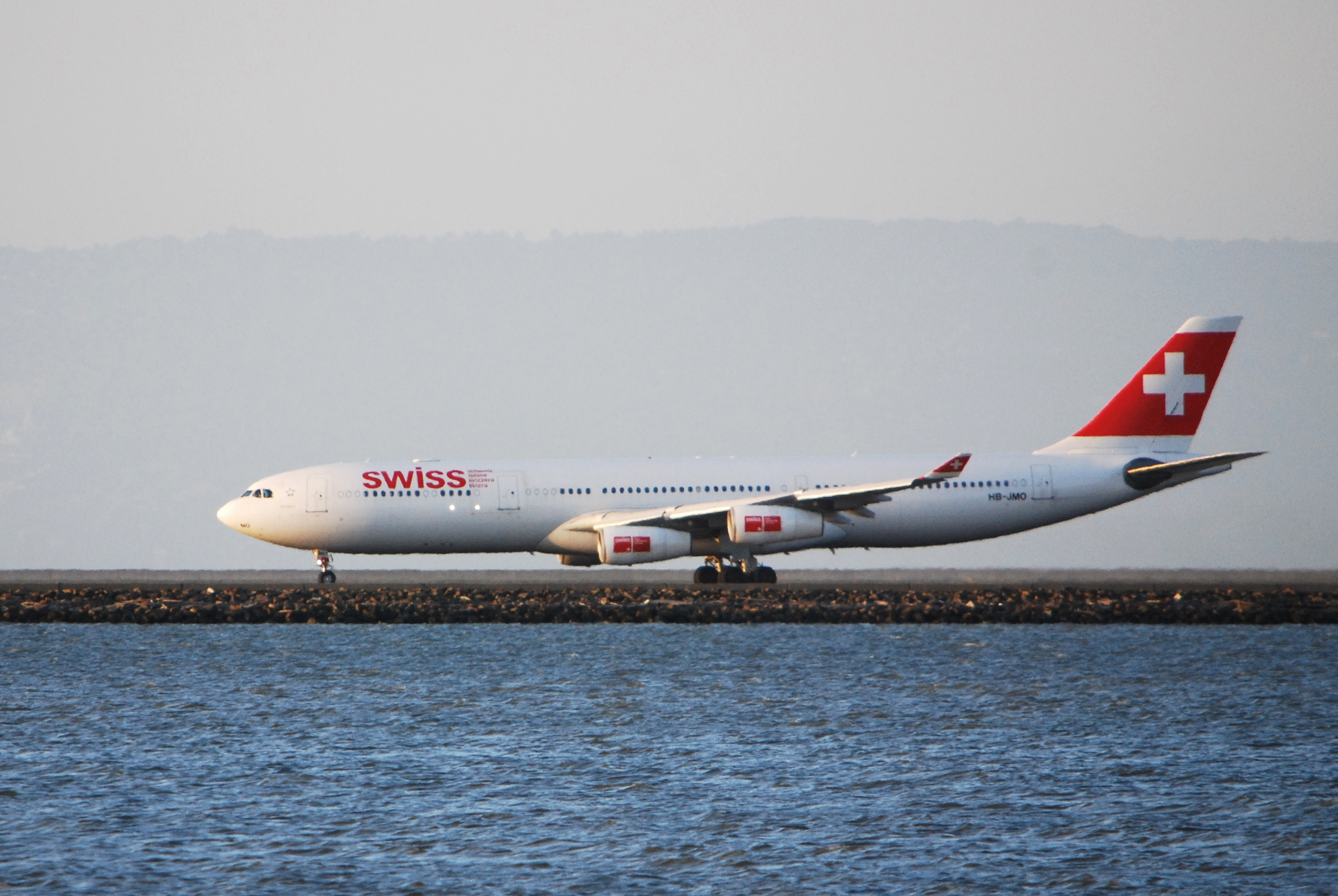 DSC_0798 Contrast up, brightness up, crop, 15% sharpen. Nice results!